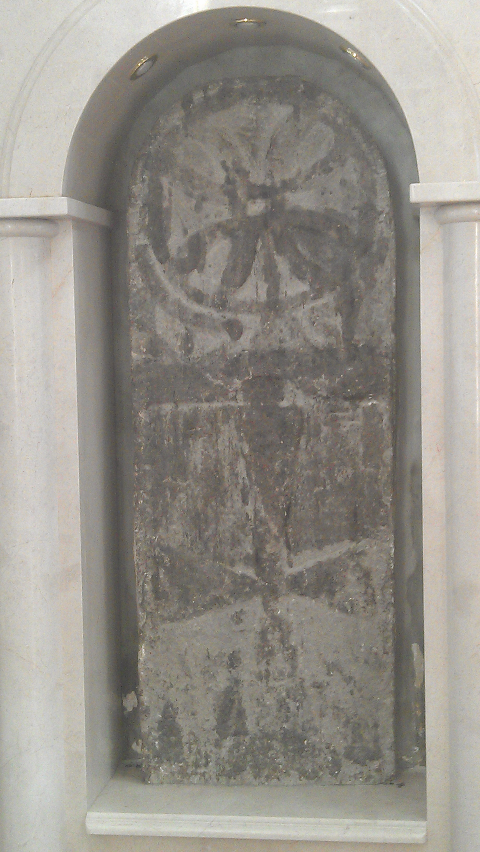 Khachkar (VI c.) from church of Saint Cross.